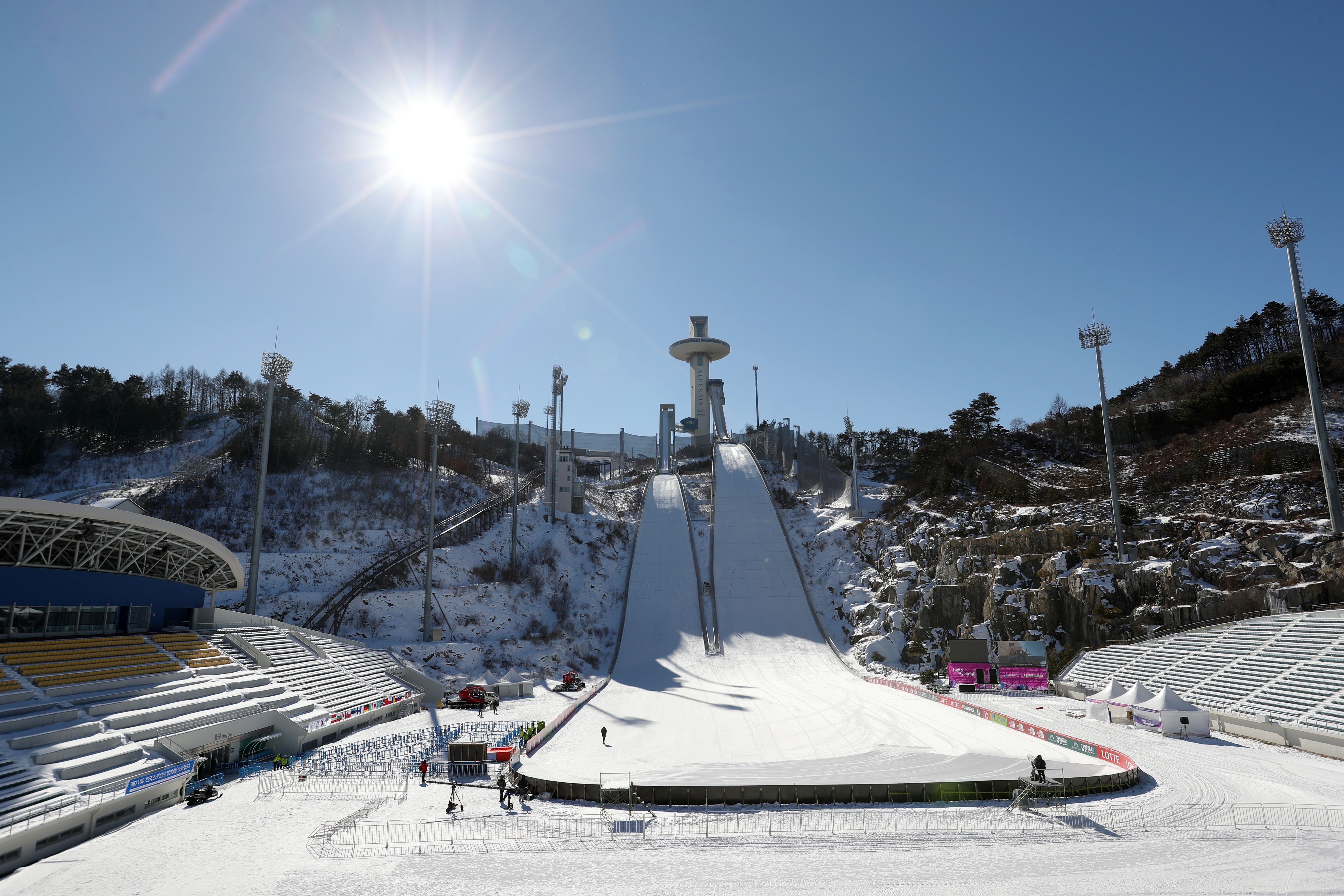 PyeongChang Alpensia February 2, 2017 Alpensia, Pyeongchang-gun, Gangwon-do Ministry of Culture, Sports and Tourism Korean Culture and Information Service ( Official Photographer : Jeon Han This official Republic of Korea photograph is being made available only for publication by news organizations and/or for personal printing by the subject(s) of the photograph. The photograph may not be manipulated in any way. Also, it may not be used in any type of commercial, advertisement, product or promotion that in any way suggests approval or endorsement from the government of the Republic of Korea. 알펜시아 2017-02-02 평창군 문화체육관광부 해외문화홍보원 코리아넷 전한